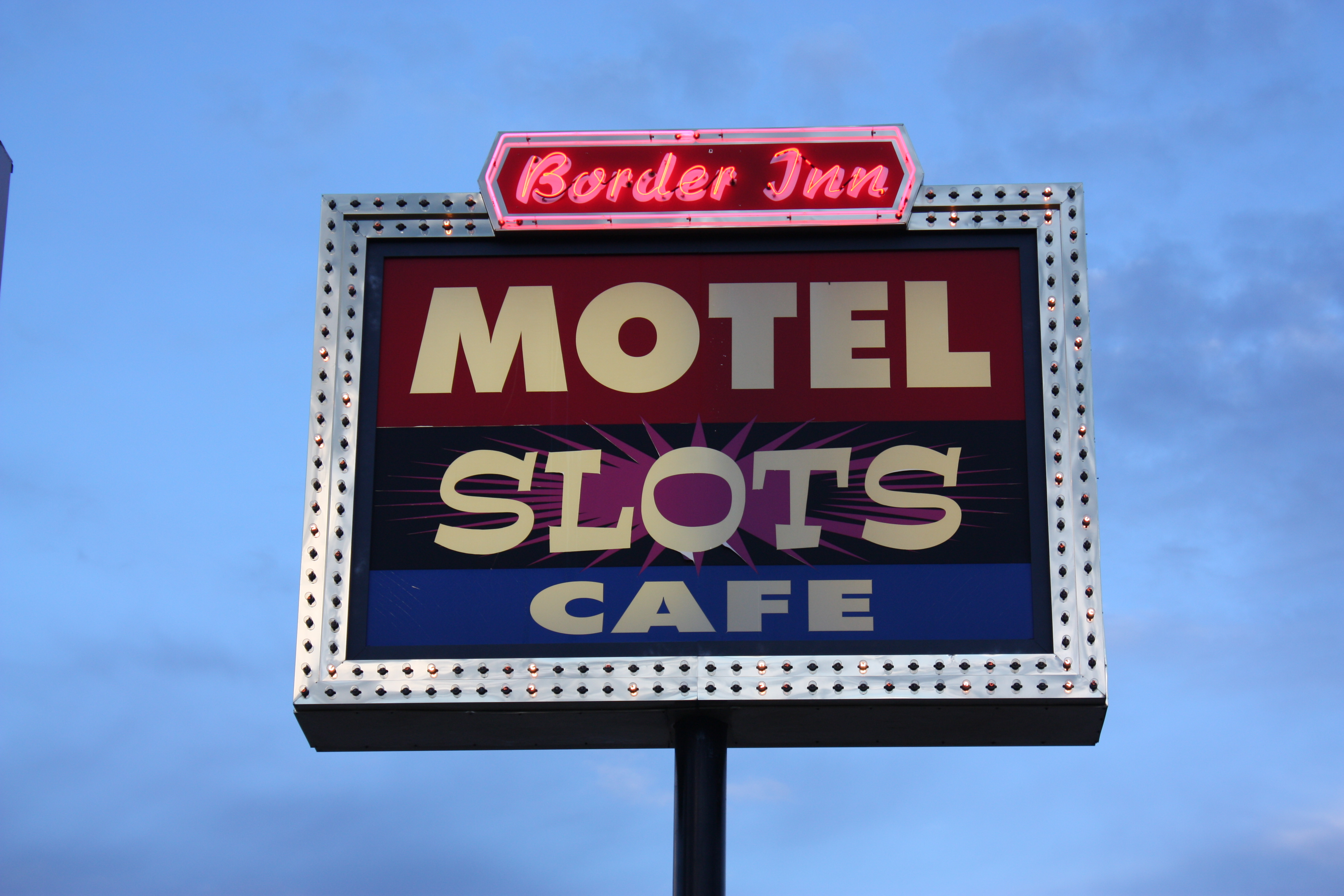 Border Inn Sign Utah Nevada